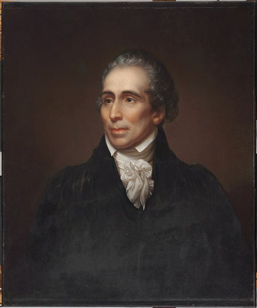 Portrait of John Warren (1753 - 1815) by Rembrandt Peale, oil on canvas, Harvard University Portrait Collection, H715.